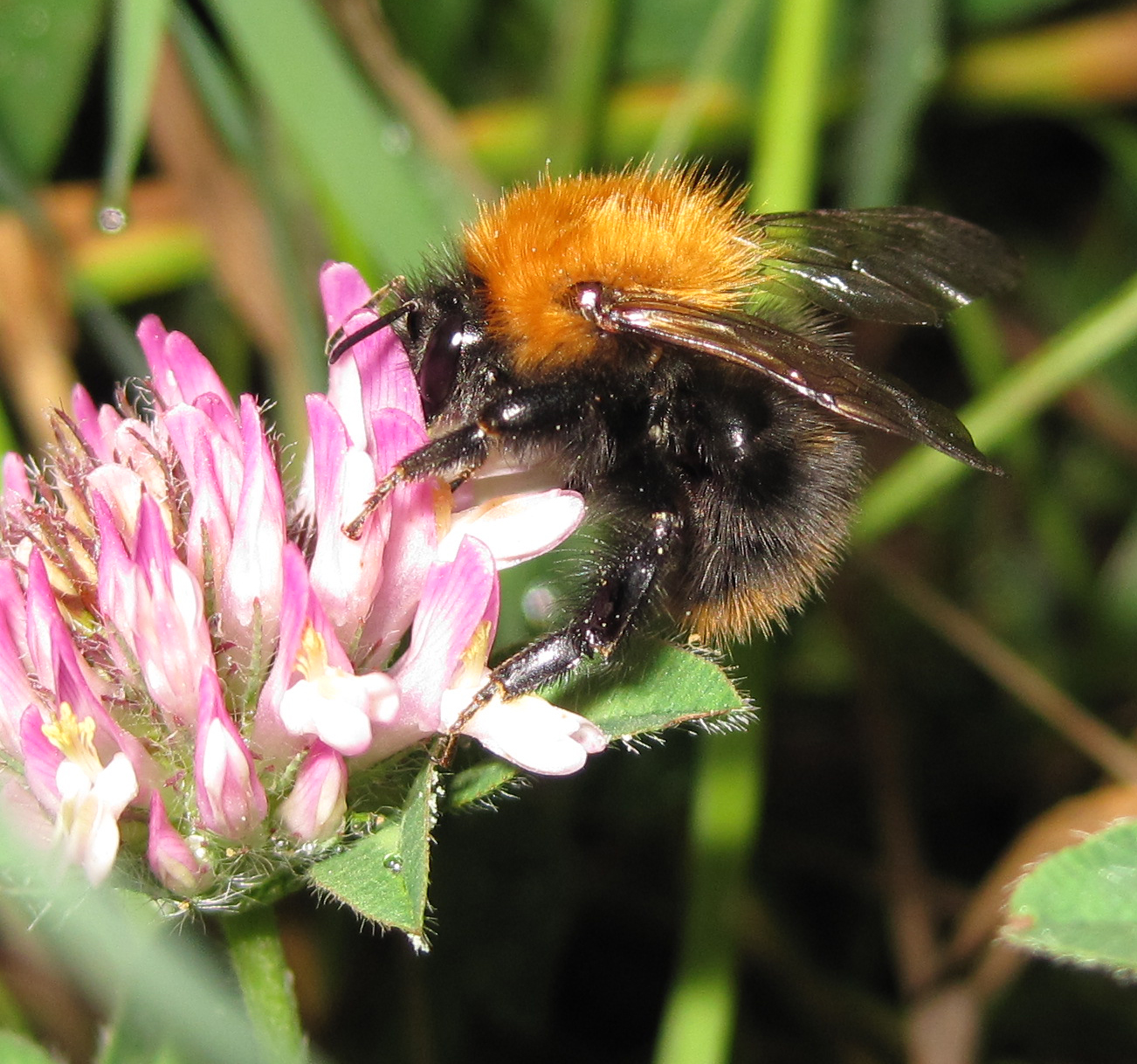 Bumblebee